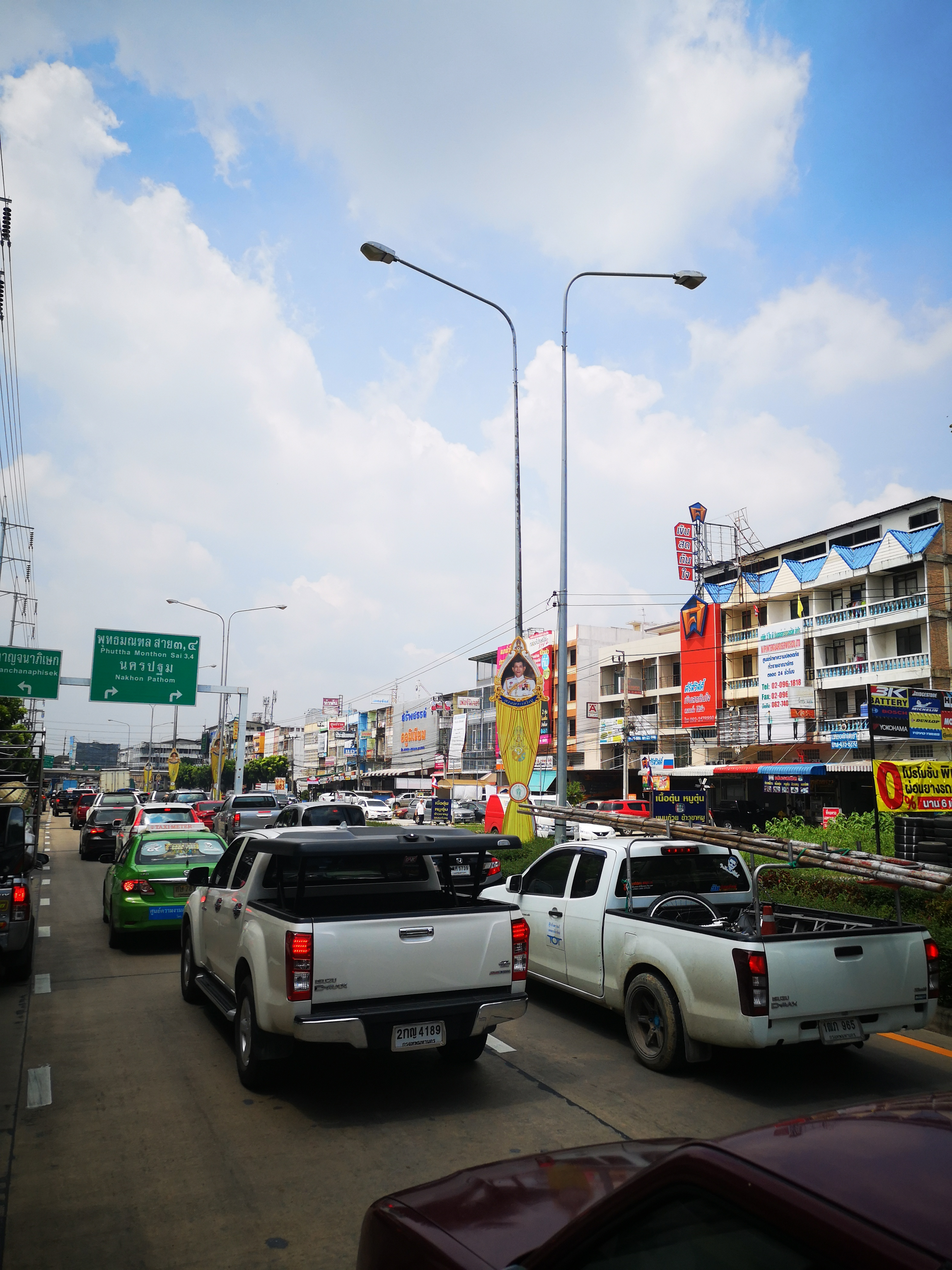 Thanon Phutthamonthon Sai 2